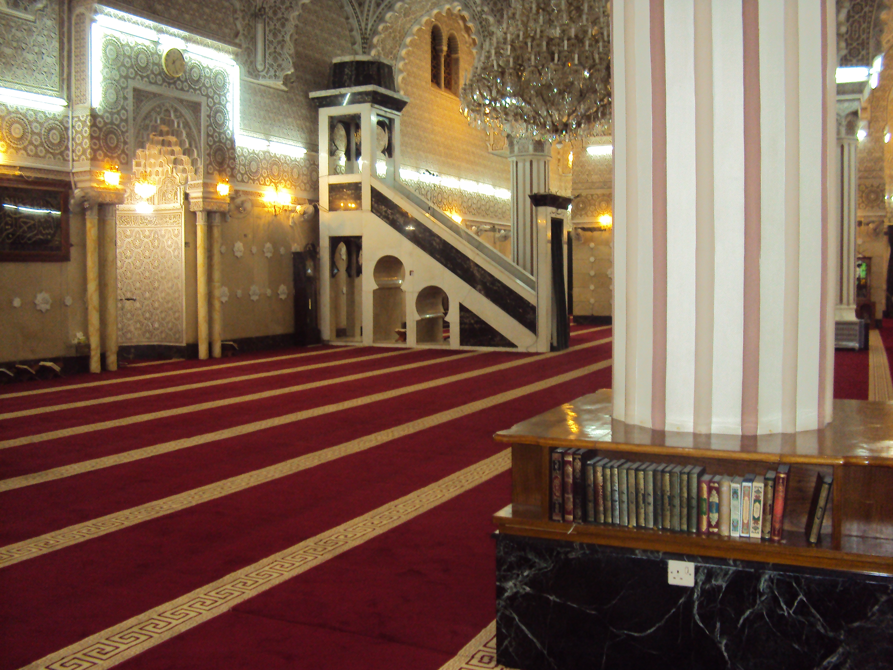 A view of the main hall of the Abu Hanifa Mosque in Adhamiyah